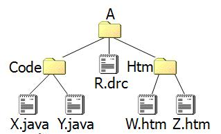 Example AHEAD Directory Structure